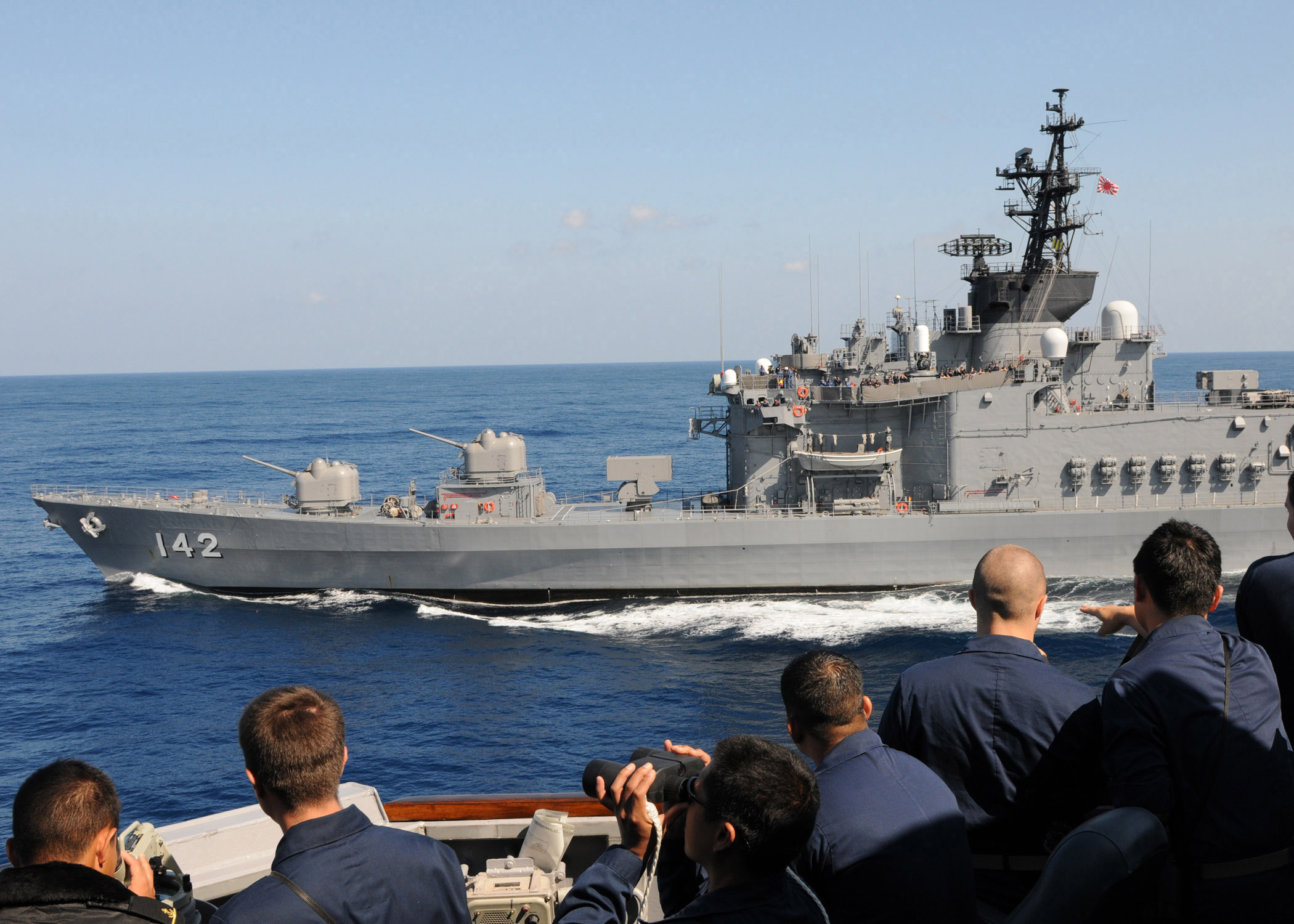 PACIFIC OCEAN (June 10, 2010) - Japan Maritime Self Defense Force destroyer JS Hiei (DDH-142) steams alongside the Arleigh Burke-class guided missile destroyer USS Mustin (DDG-89) during "leap frog" navigation training. This is one of several events being conducted by Mustin and Hiei as part of a Foreign Exchange Training of Midshipmen (FOREXTRAMID) program. (U.S. Navy photo by Mass Communication Specialist 1st Class Brock Taylor) Nikon D300S